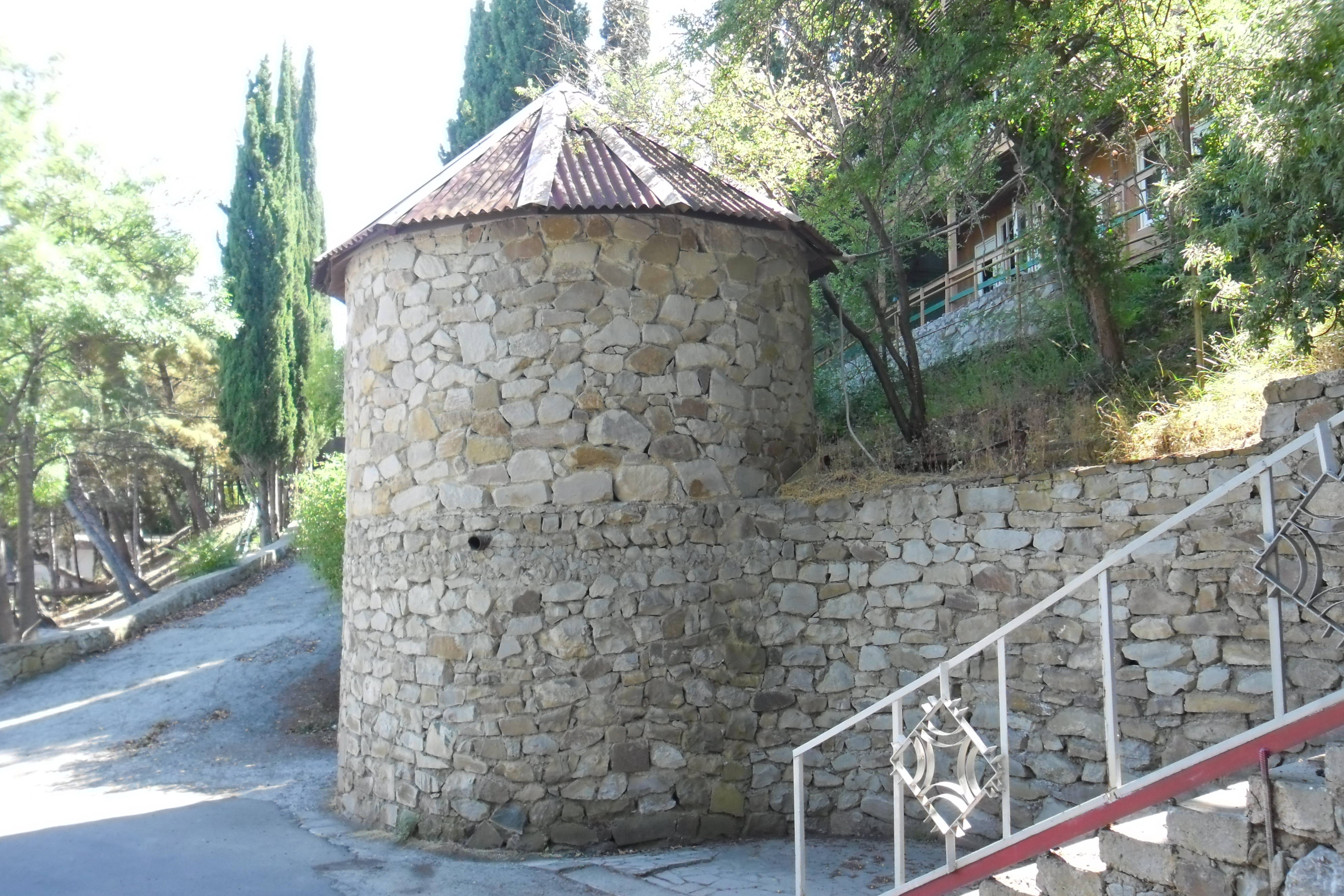 The village Bondarenkovo​​, Alushta city council, Crimea